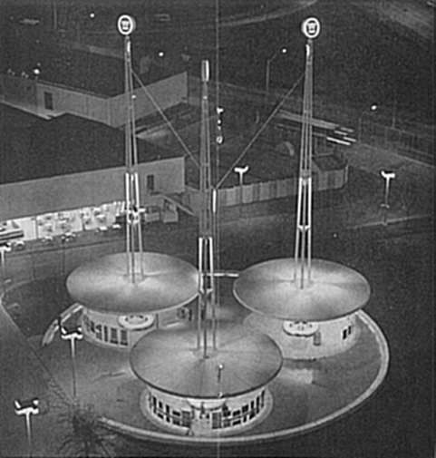 Westinghouse exhibit 1964 World's fair